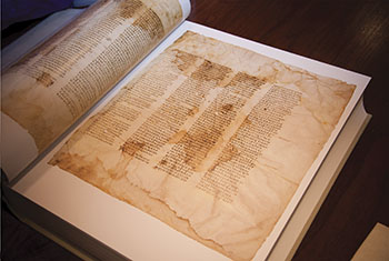 This facsimile copy of the Codex Sinaiticus utilizes high-resolution, full color photographs of each page of the original document. The quality reproduction is used as a research tool at the Haggard Center for New Testament Textual Studies at New Orleans Baptist Theological Seminary.